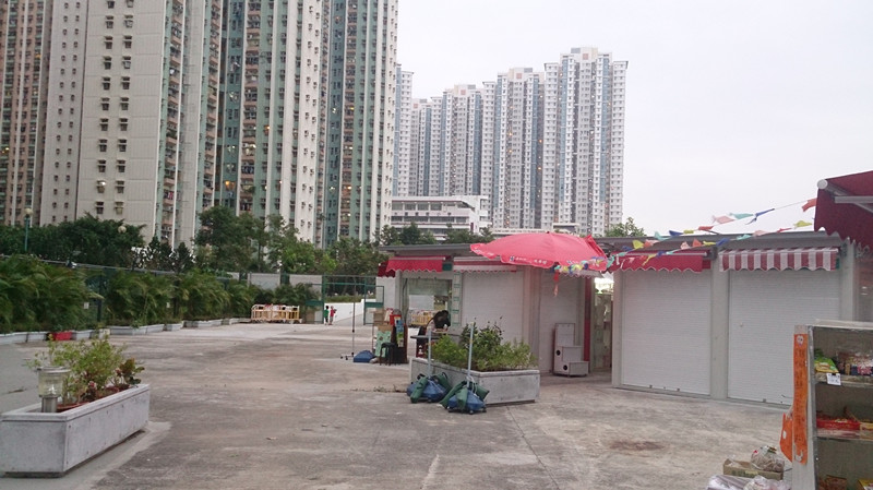 shops